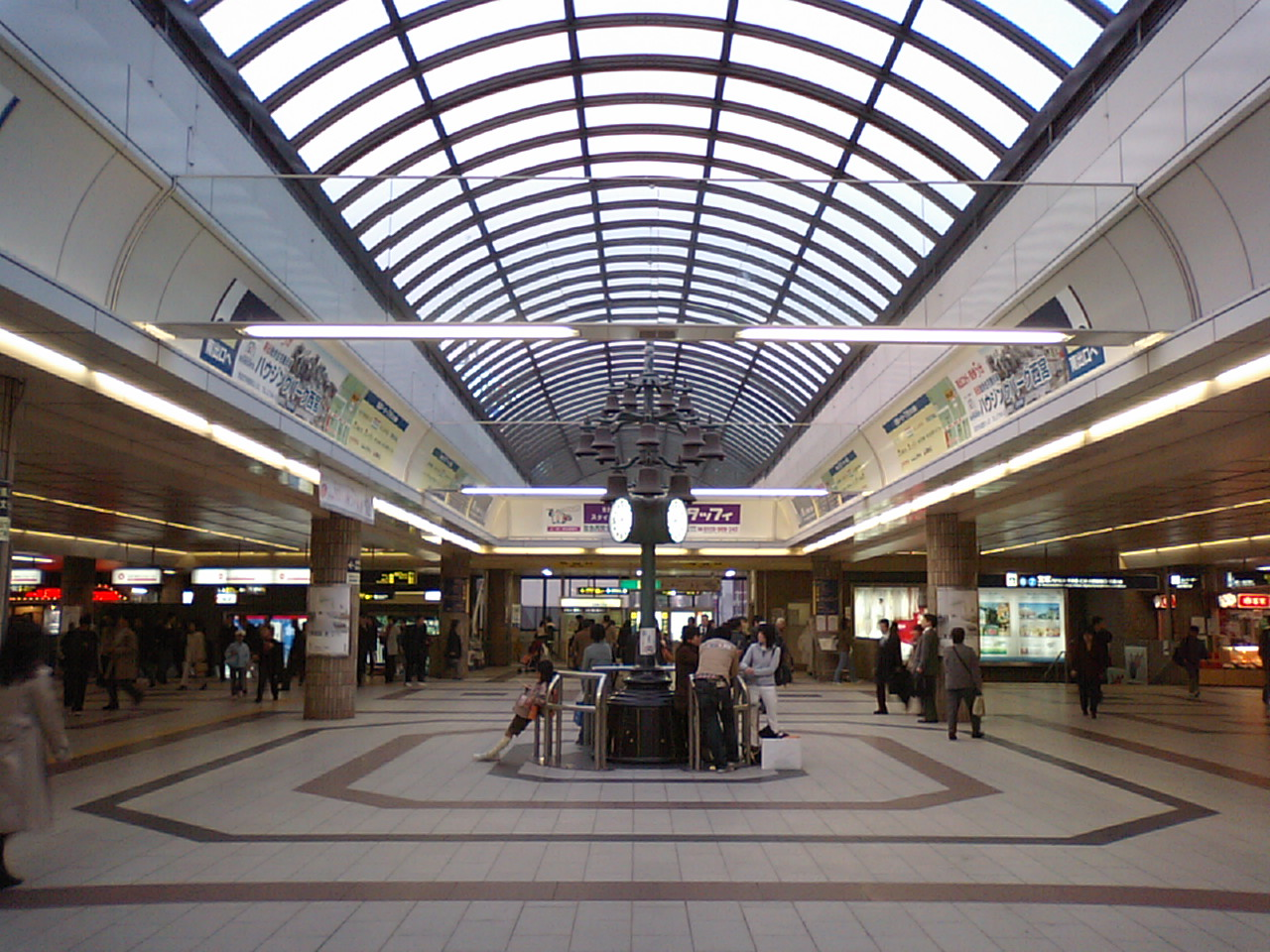 Interior of Nishinomiya-kitaguchi station (Hankyū Kobe Main Line)